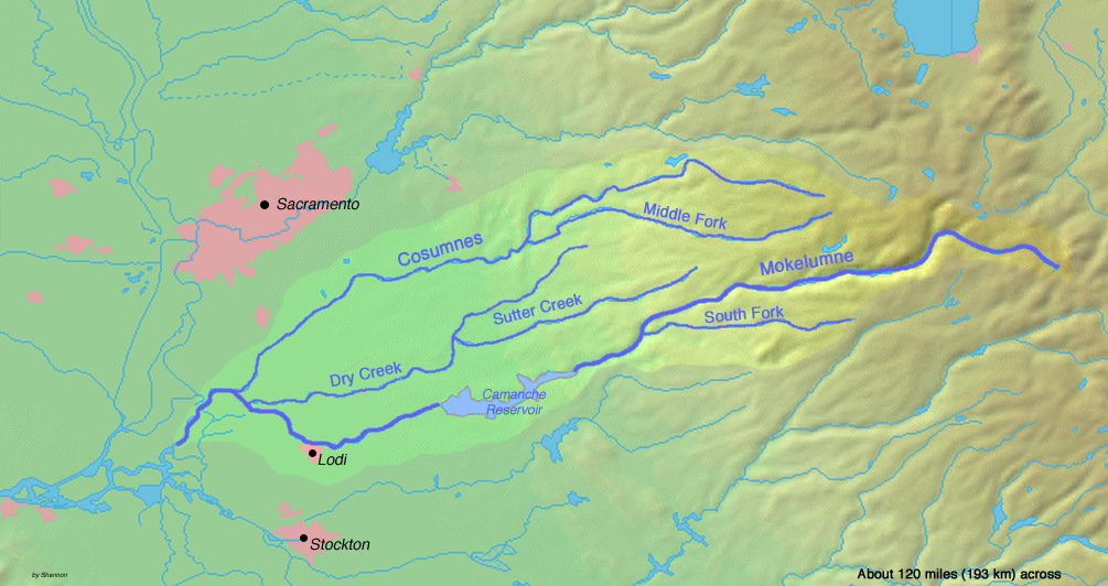 Map of the :|Mokelumne River watershed in north-central California. The Mokelumne watershed's headwaters are in the Sierra Nevada, which then drains through the San Joaquin Valley —to the Sacramento-San Joaquin River Delta in the Central Valley of California.